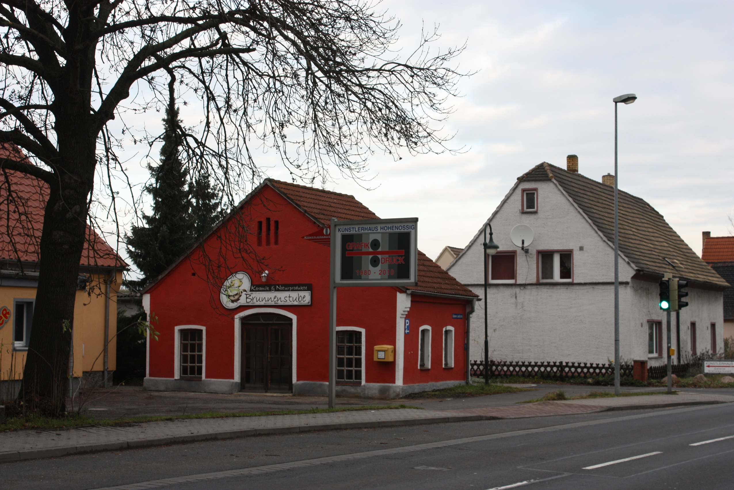 Hohenossig (Krostitz), the Brunnenstube